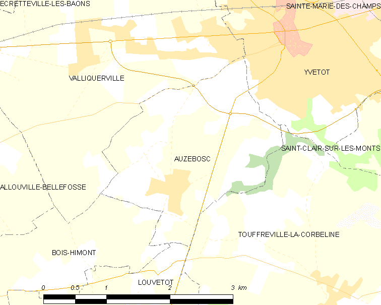 Map of French municipality Auzebosc